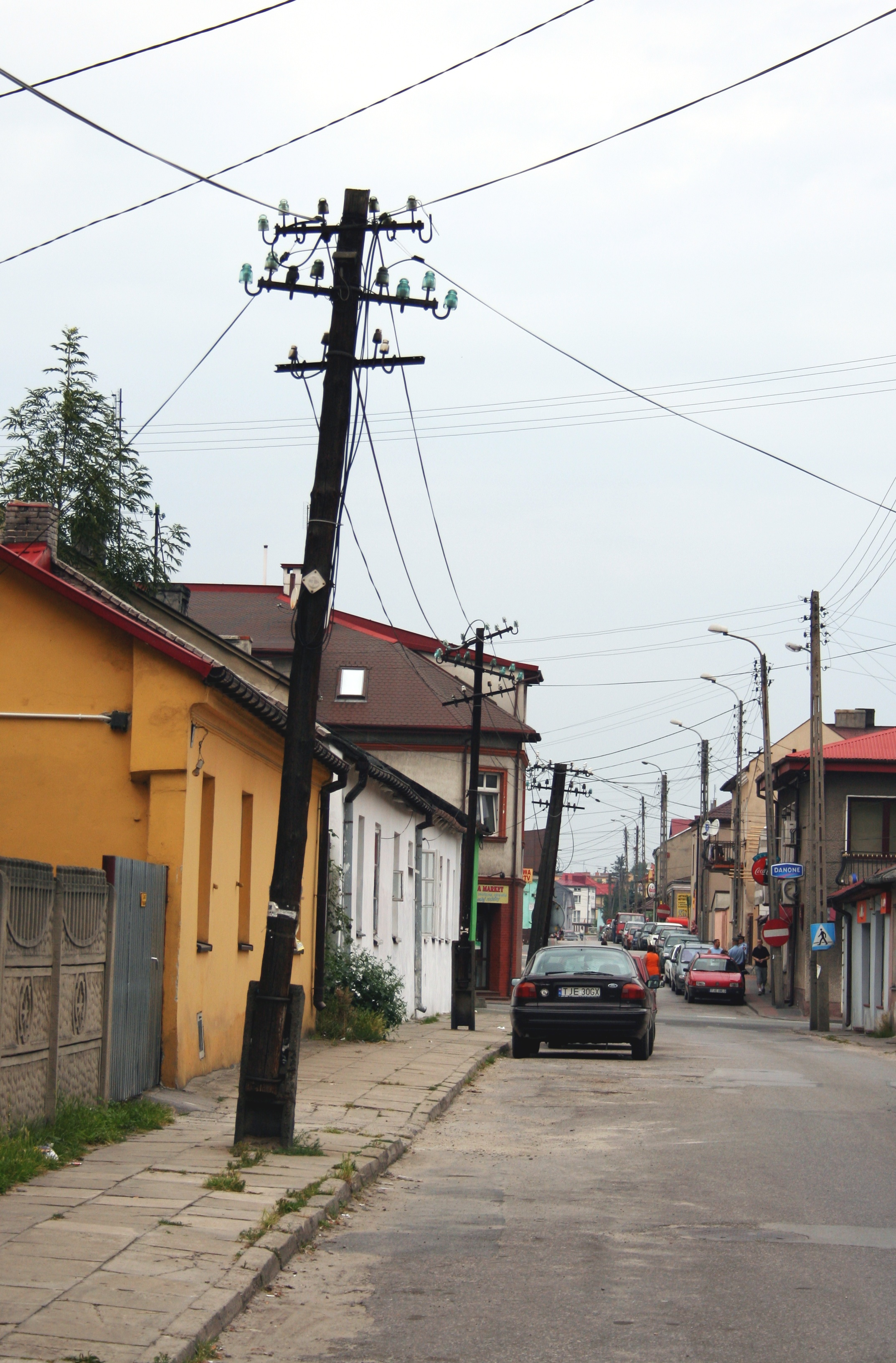 Jędrzejów, Poland